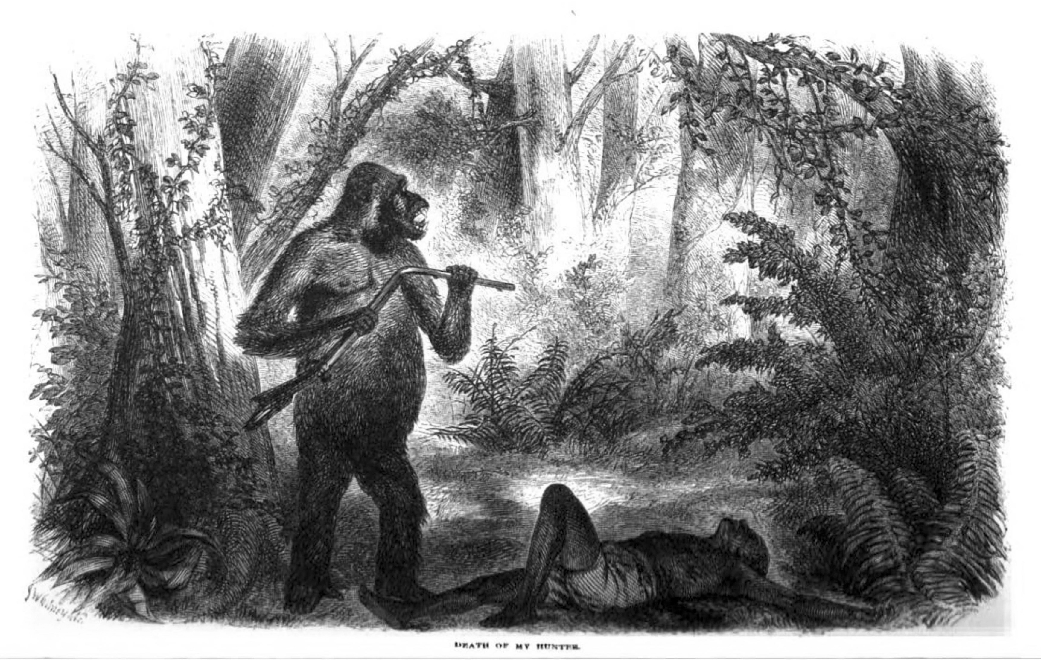 Illustration from Explorations and Adventures in Equatorial Africa.